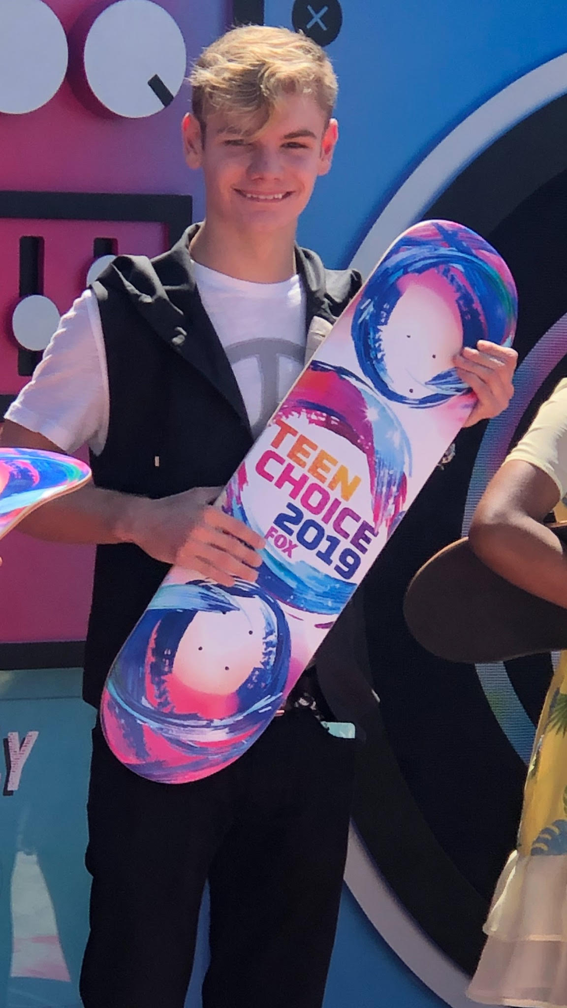 Logan Guleff Teen Choice Winner 2019 , Los Angeles, CA